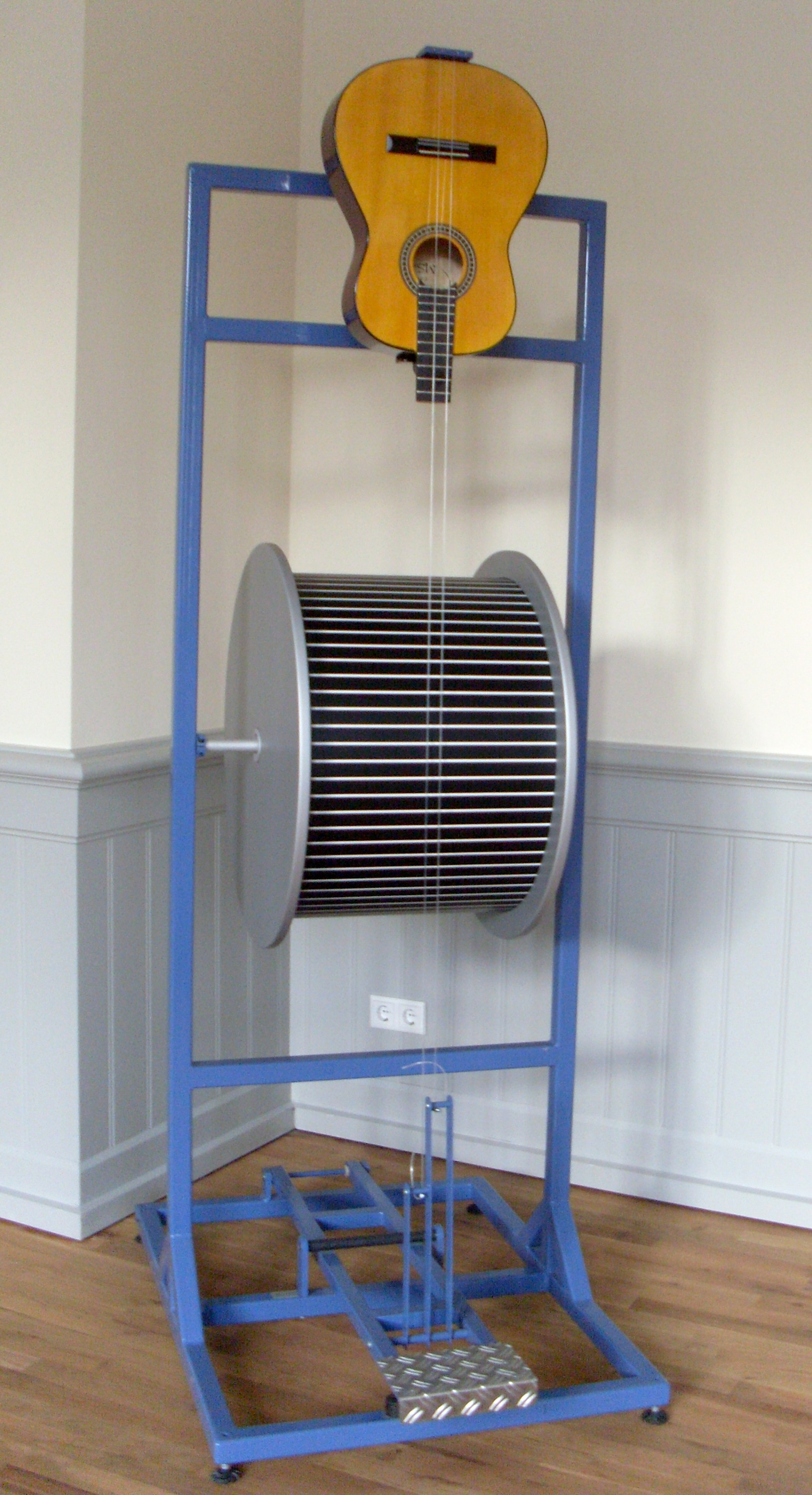 Musiculum Gitarrenexponat